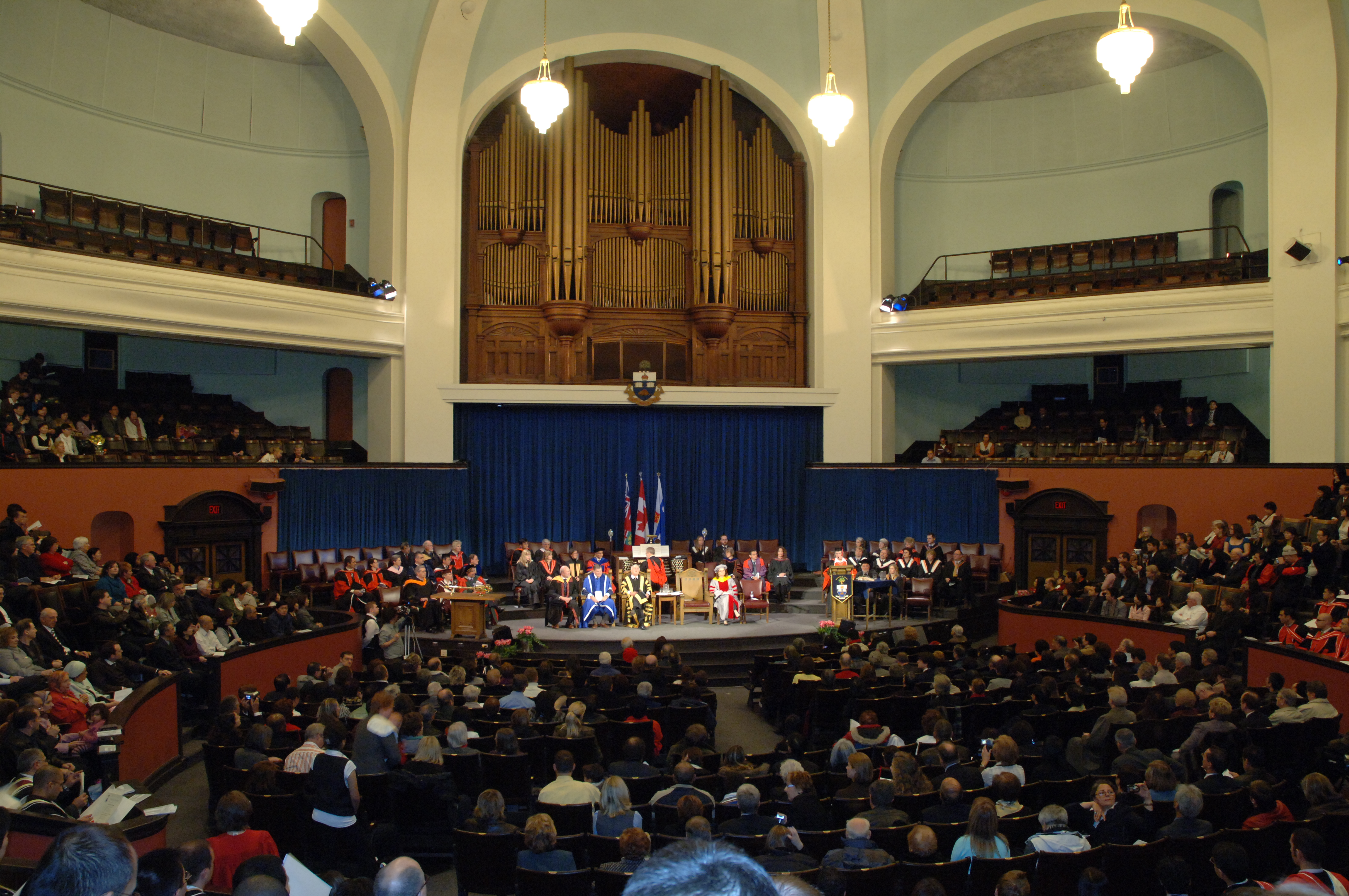 Interiour of Convocation Hall during Fall convocation